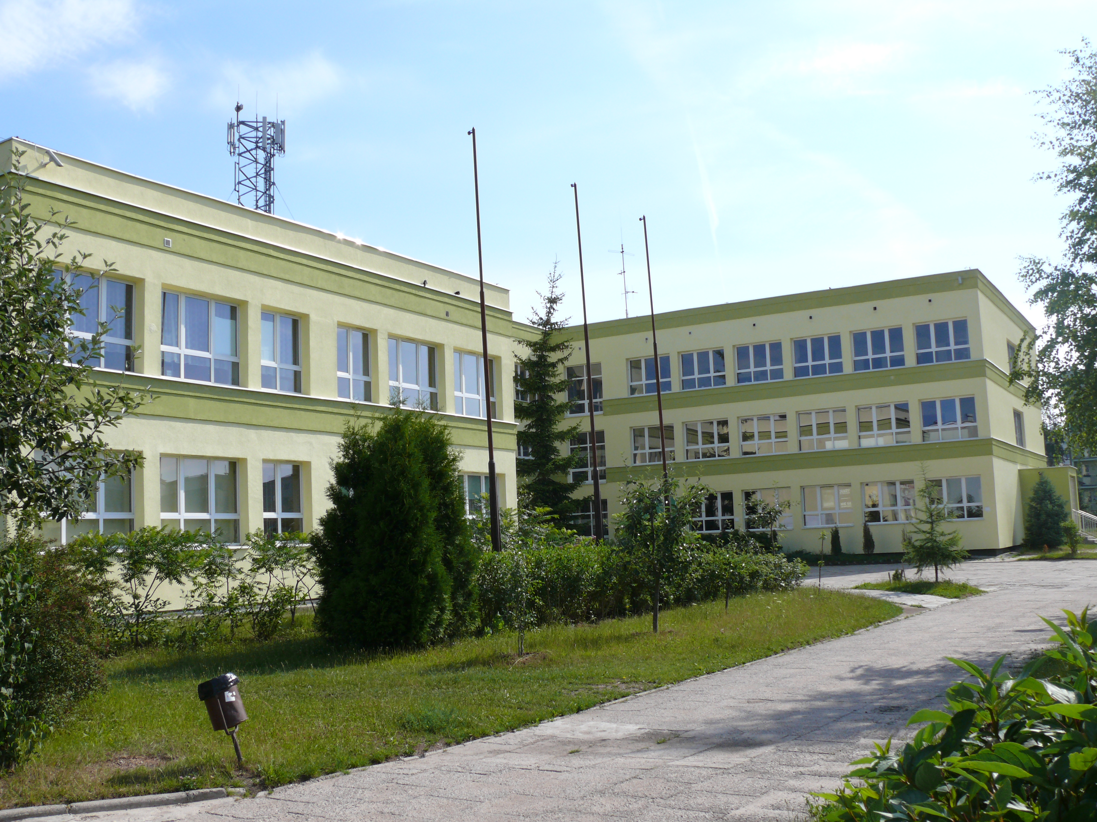 Grammar school number 13 in Olsztyn